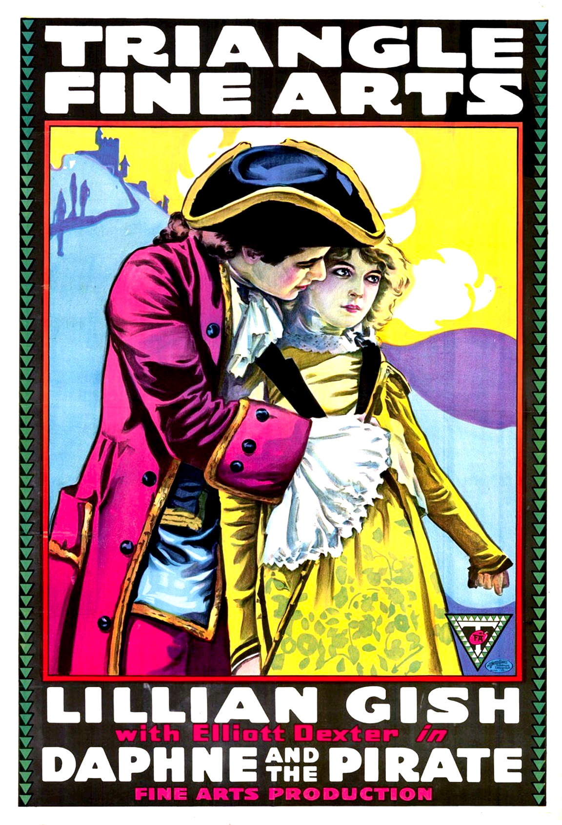 Poster for Daphne and the Pirate (1916). ©1916 Fine Arts Film Company